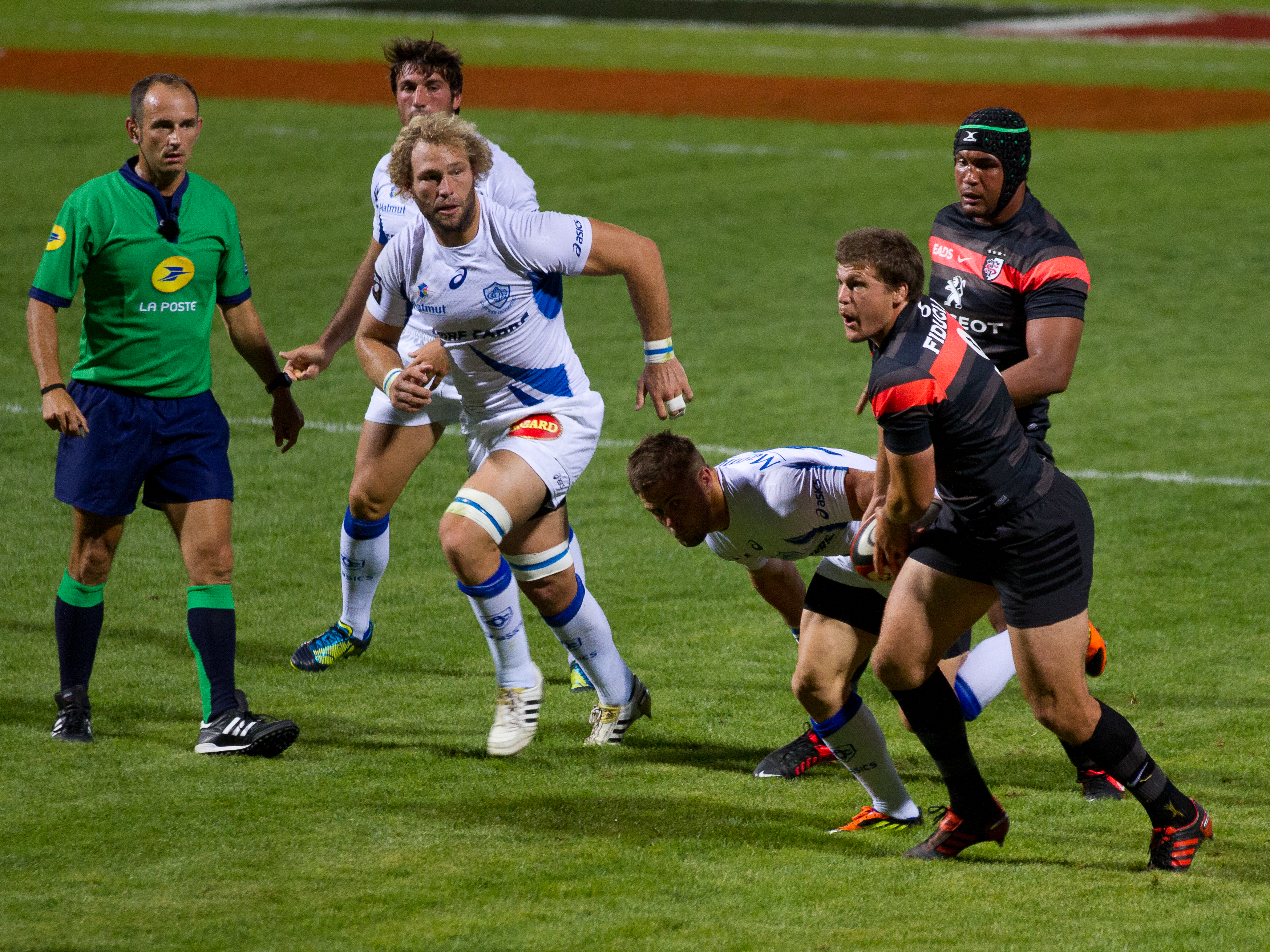 Top 14 — 17 August 2012, Stade Ernest-Wallon. Match between: Stade toulousain — Castres olympique